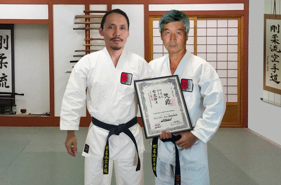 Tibetan Actor Rabyoung Thonden Gyalkhang at the Okinawan Goju Ryu Karate Do Kyokai. Ni-Dan (2nd Degree Black Belt) ranking ceremony. Rabyoung Thonden Gyalkhang with Shihan (Master's Master) Hachi-Dan - Motoo Yamakura. -- Ontario, Canada.